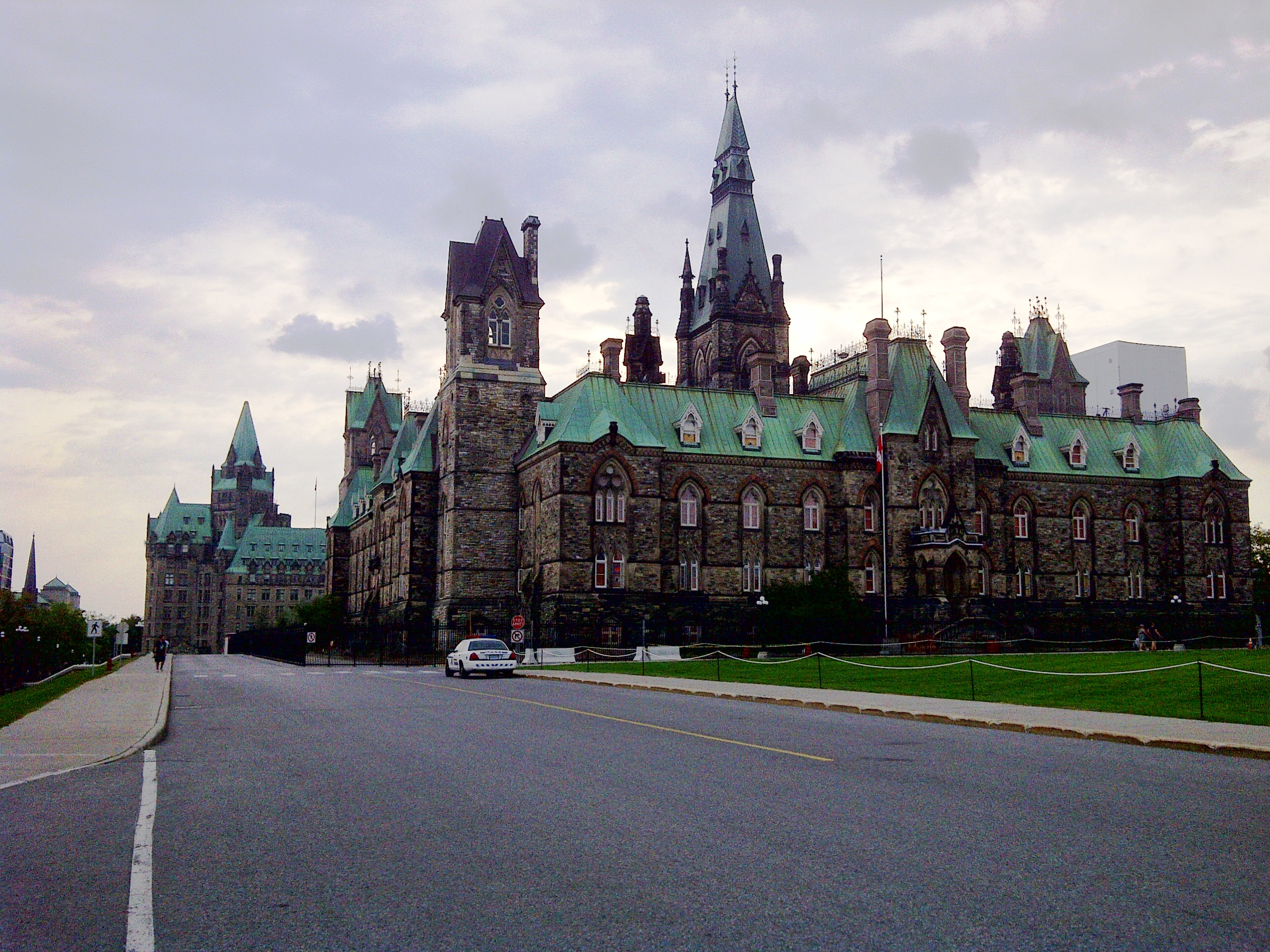 A city to be visited